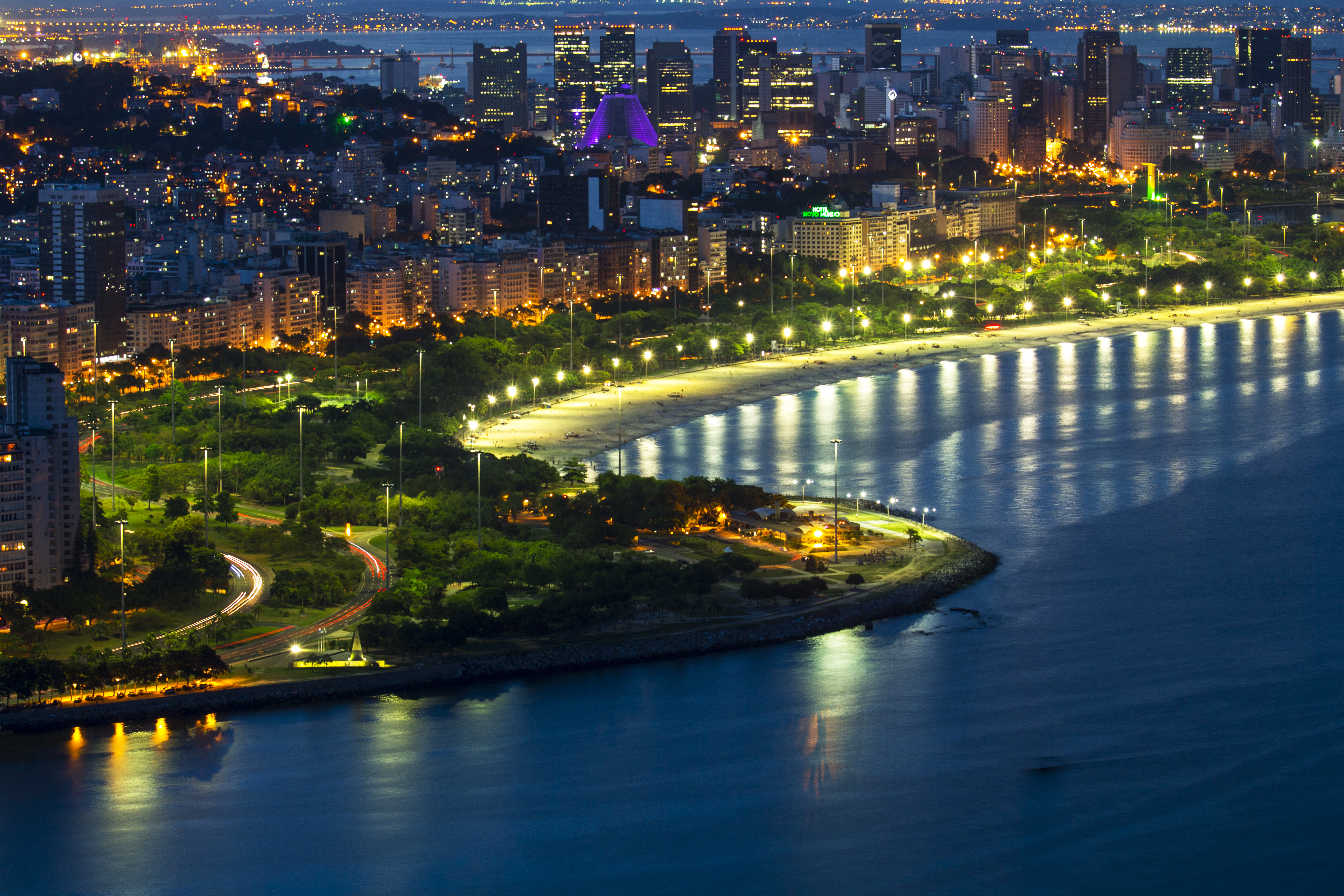 View of the Flamengo Park, with the Rio de Janeiro downtown in the background, from the Morro da Urca.